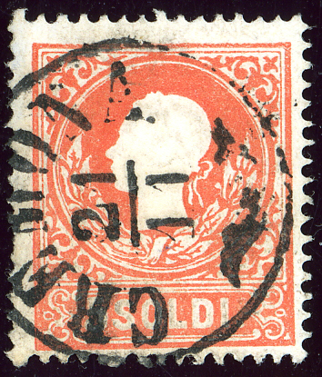 Stamp of Lombardy-Venetia, issue 1858 type I, 5 soldi, cancelled at CREMONA, Lombardy. Michel 9I.